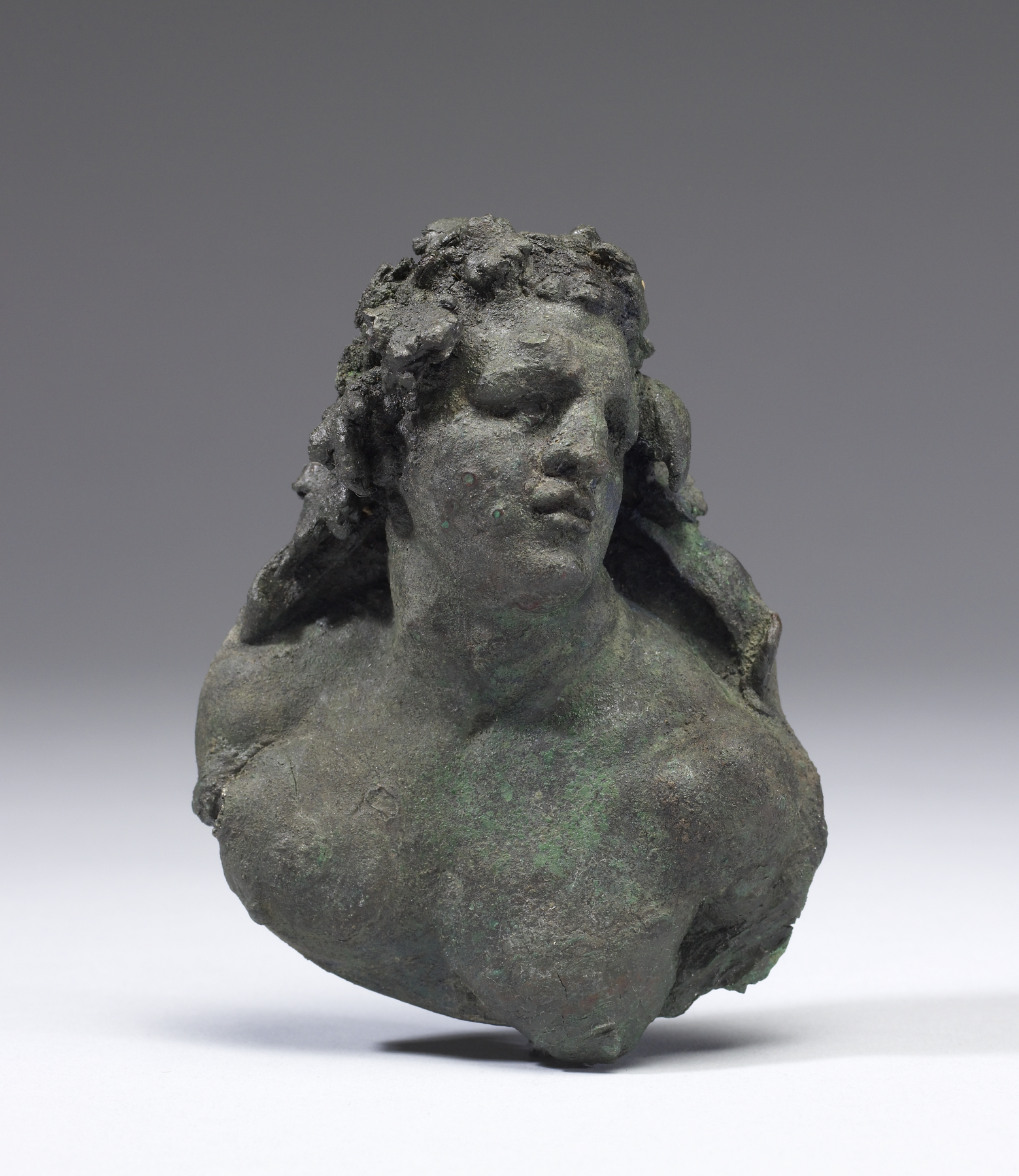 Ptolemy I (ca. 367-283 BC) was a Macedonian general in Alexander the Great's army and the founder of the Ptolemaic dynasty in Egypt. This relief probably decorated the curved armrest of a bed or other piece of furniture. Ptolemaic rulers were viewed as divine by their Egyptian subjects. They often chose to portray themselves to their Greek subjects in the guise of figures from Greek mythology, such as the Greek wine-god, Dionysus.